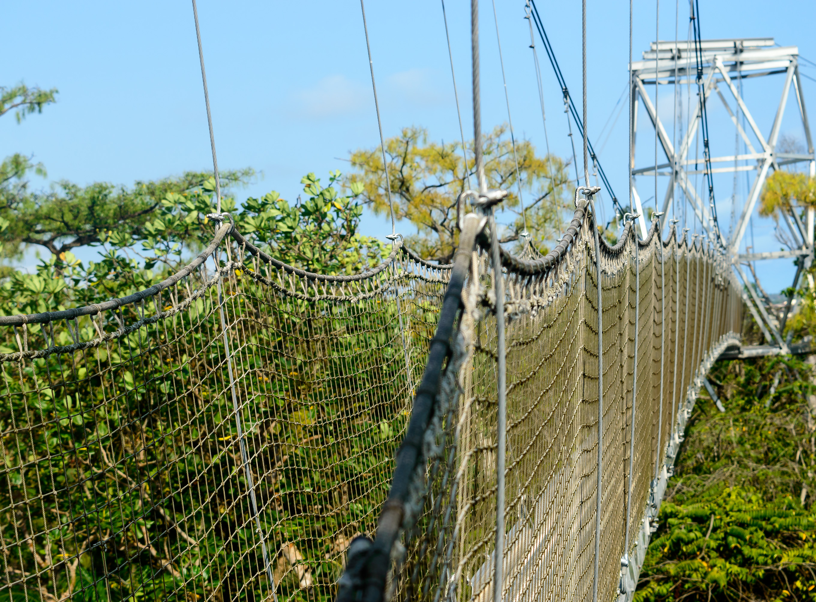 Lekki Conservation Center, Canopy walk